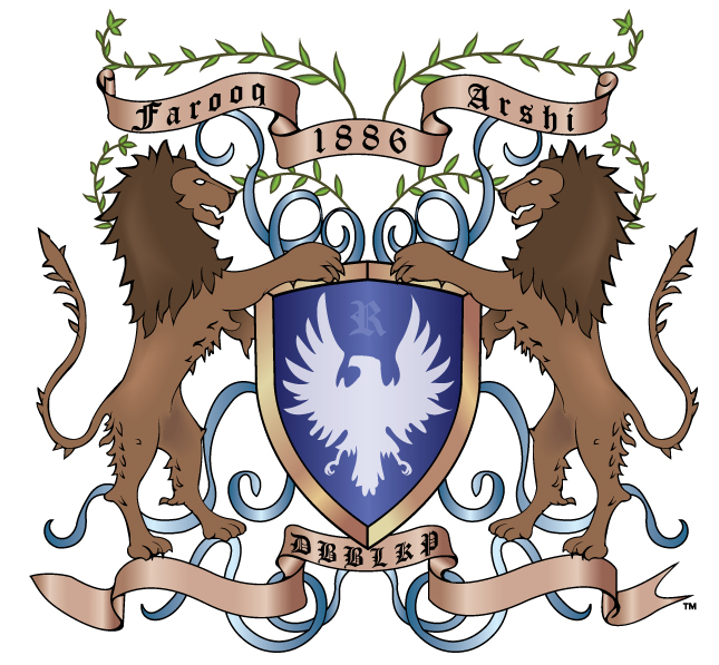 Farooq Family Stamp